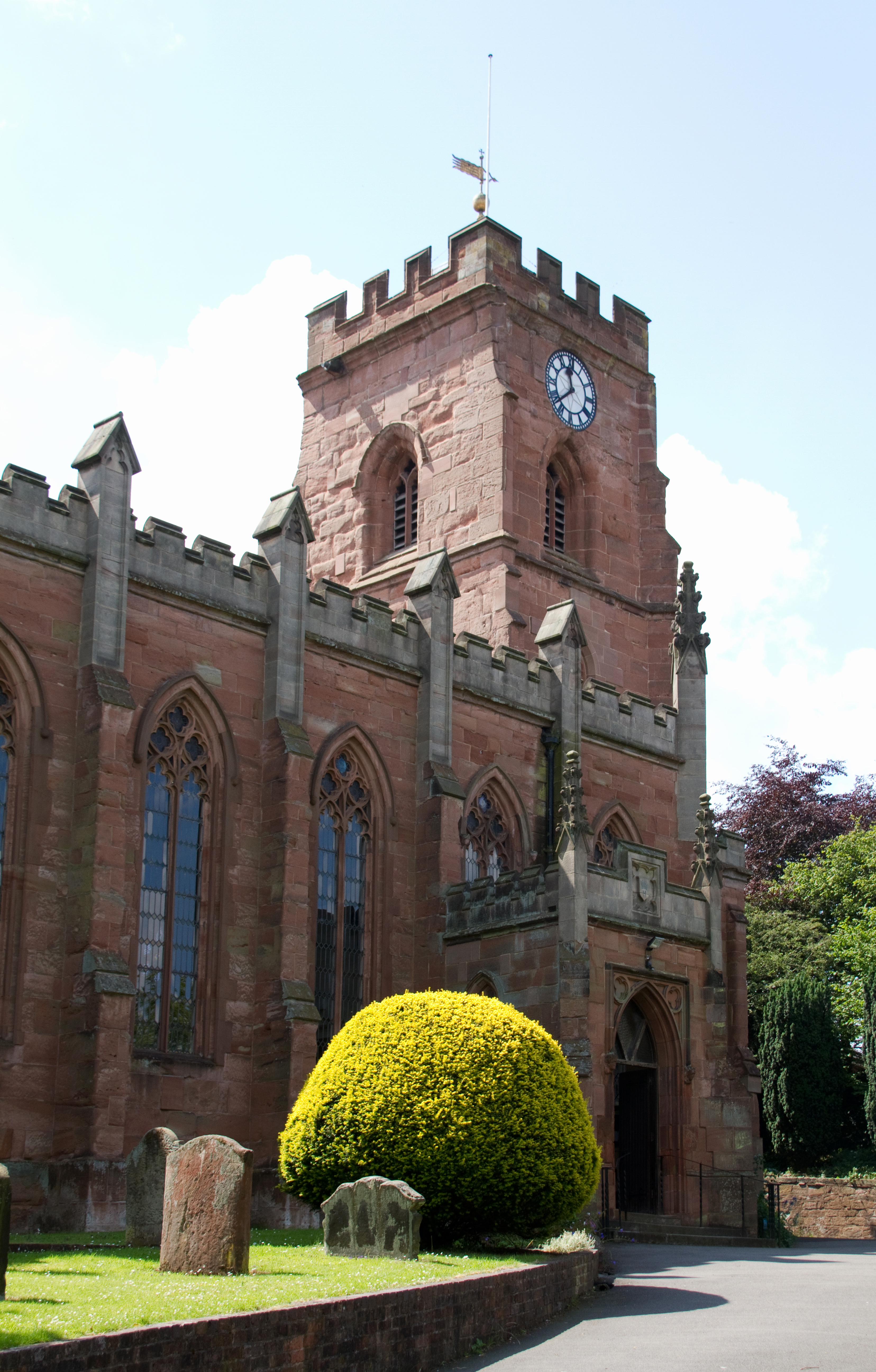 West tower of St Mary's parish church, Old Swinford, Stourbridge, West Midlands, seen from the northeast